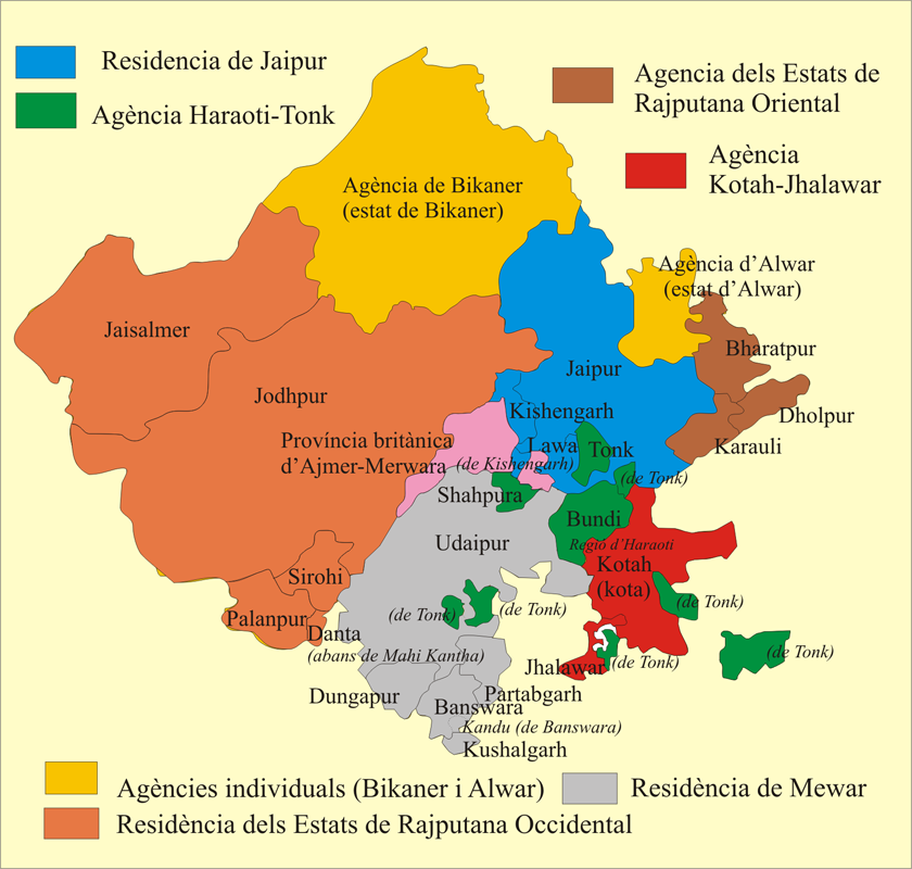 Agencies and residencies of Rajputana agency S. XX